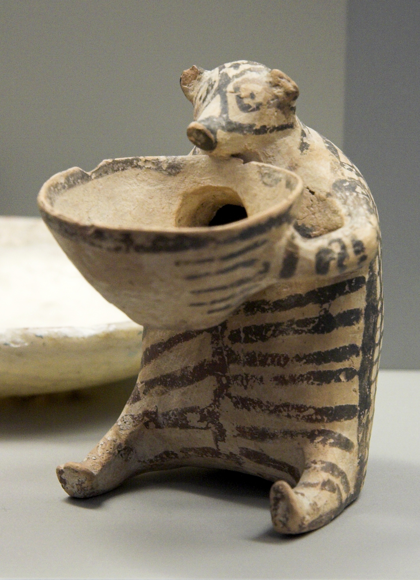 Rhyton (angeion) in the form of a bear (pig?), painted small terracotta. Syros, Chalandriani. EC II, 2800 to 2300 BC. National Archaeological Museum of Athens N6176.